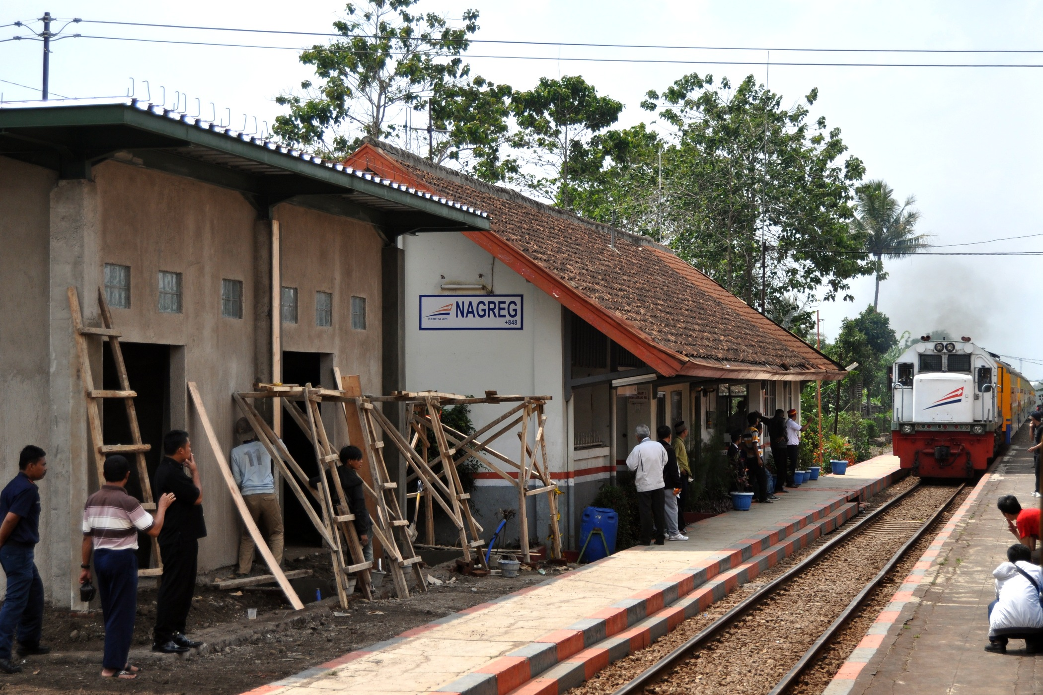 Nagreg train station near Bandung, West Java, Indonesia.